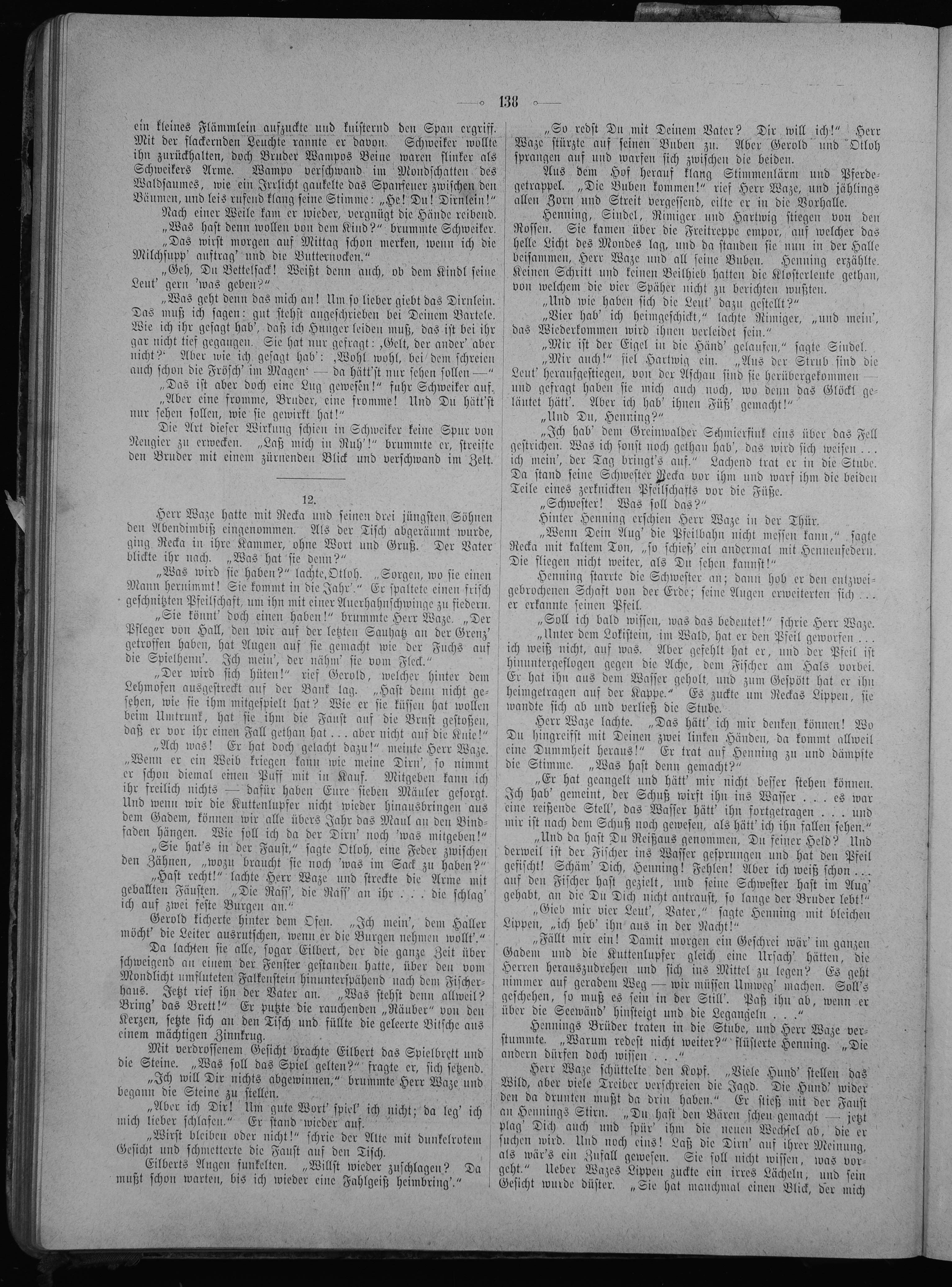 Page 138 from journal Die Gartenlaube for 1894. Extracted image (if any): File:Die Gartenlaube (1894) b 138.jpg - hi res, ~2.5 MB.